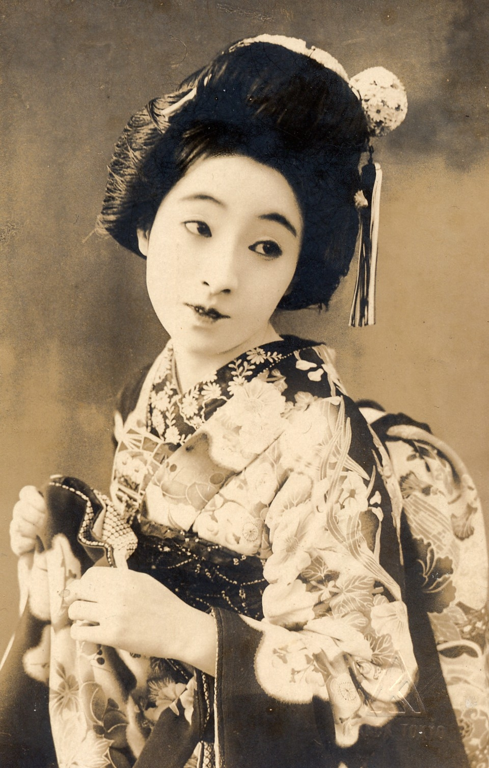 Portrait of the actress Sakuko Yanagi